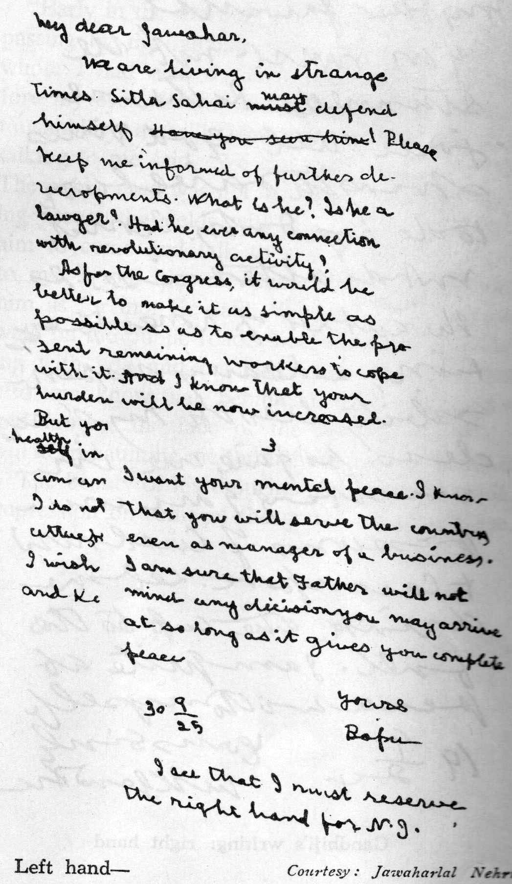 Gandhi's handwriting with his left hand (Letter to J. Nehru, 30 September 1925).